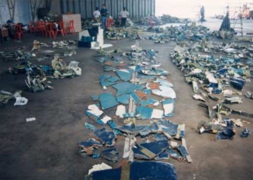 The recovered wreckage of 9V-TRF from Indonesia's Musi River.